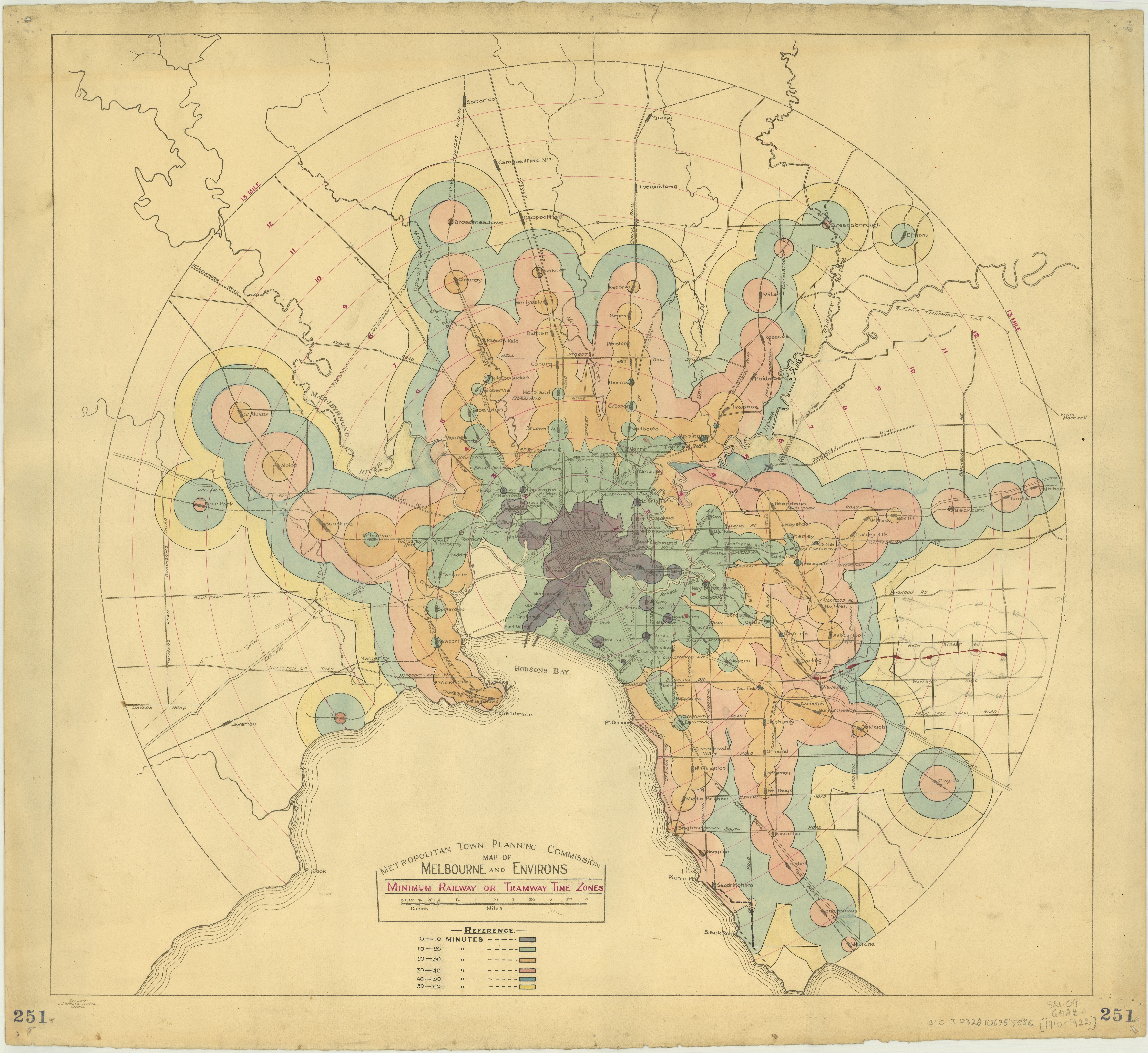 Isochrone map of Melbourne travel times to the city centre by tram or train.